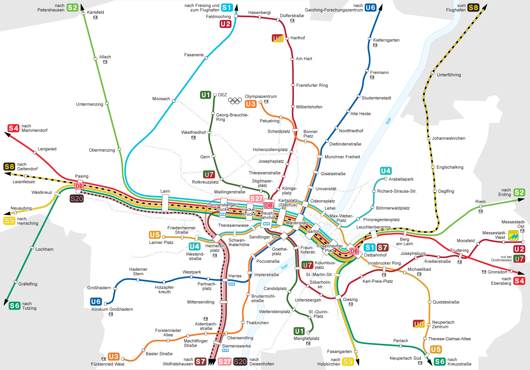 Topographical rapid transit network map of Munich 2006